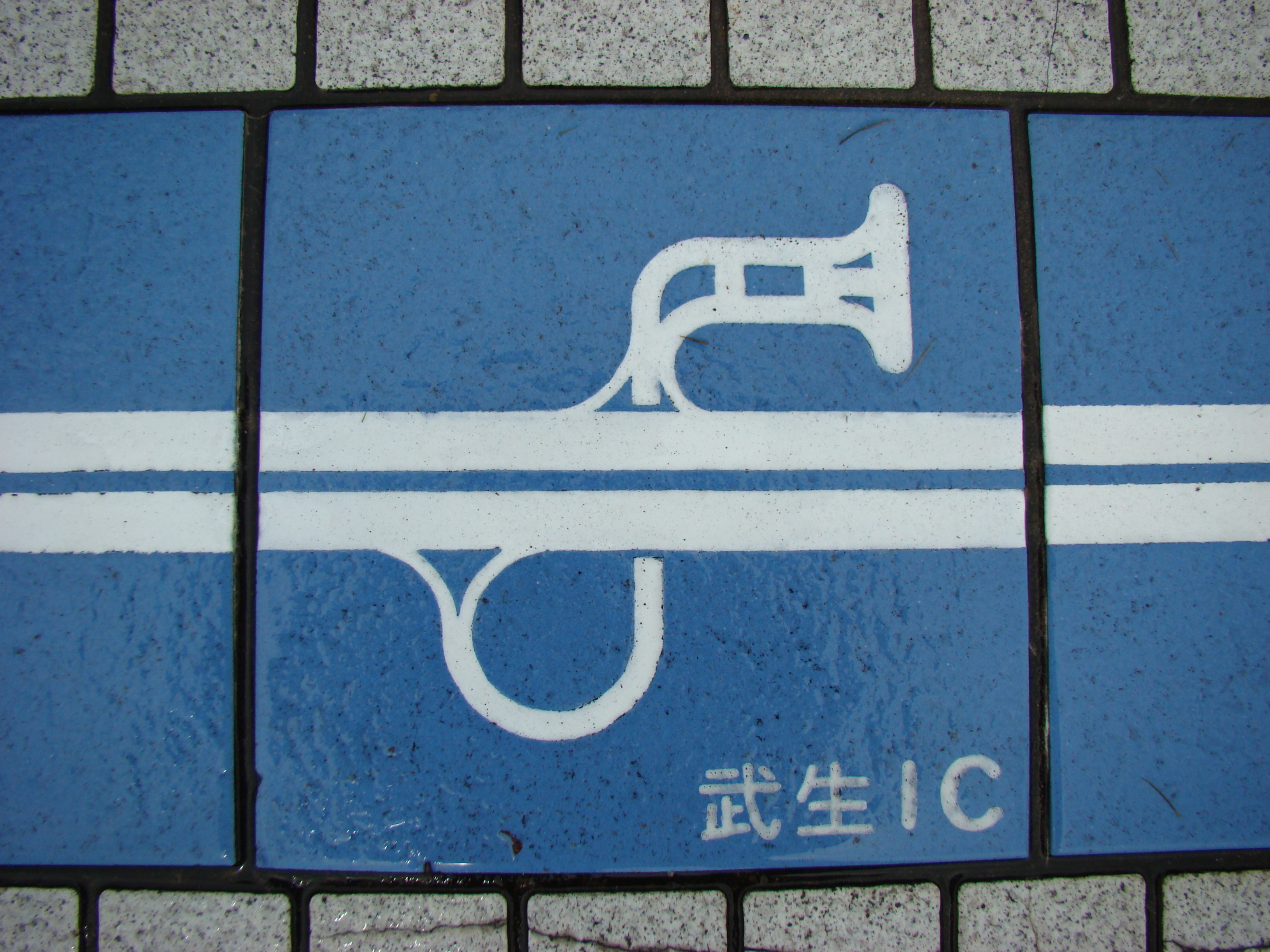 Tile which shows the shape of Takefu Interchange on the Hokuriku Expressway, installed at Nadachi-Tanihama Service Area in Chayagahara, Joetsu City, Niigata Prefecture, Japan